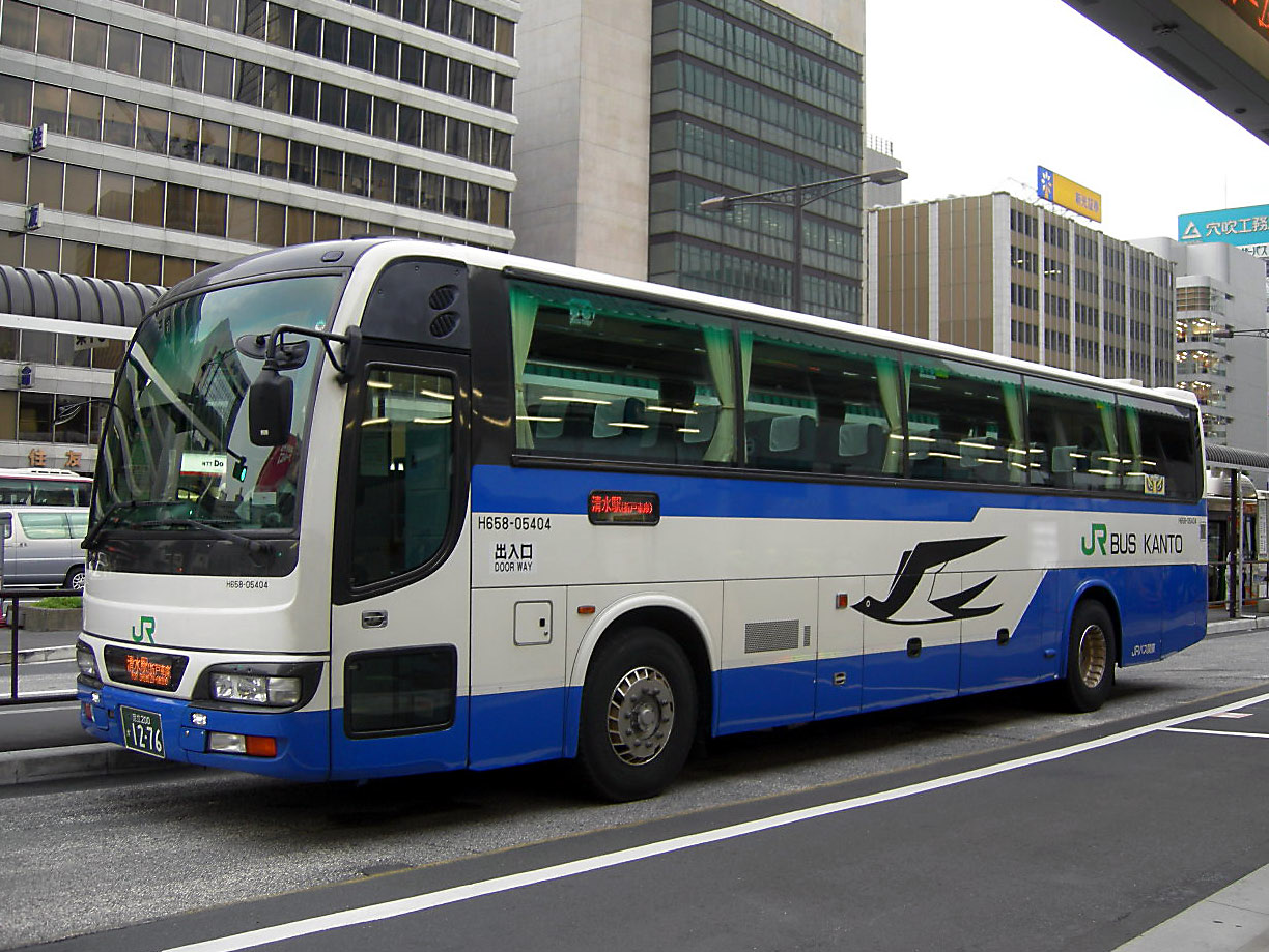 JR bus Kanto Nissandiesel Spacearrow(KL-RA552RBN),Shimizu-liner(Tokyo-Shimizu)